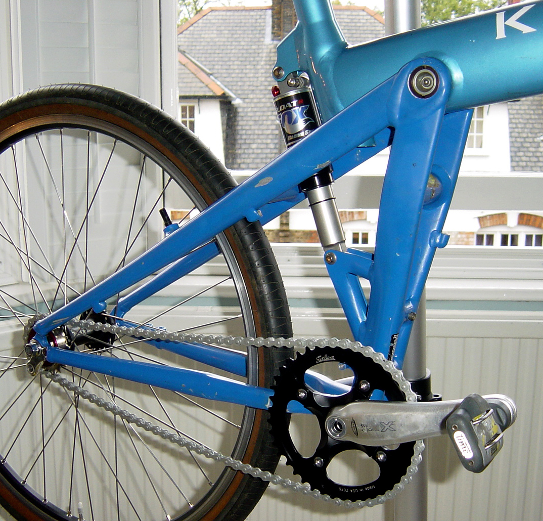 Front end next... Want to know more, go to the gallery of one geared bike art .